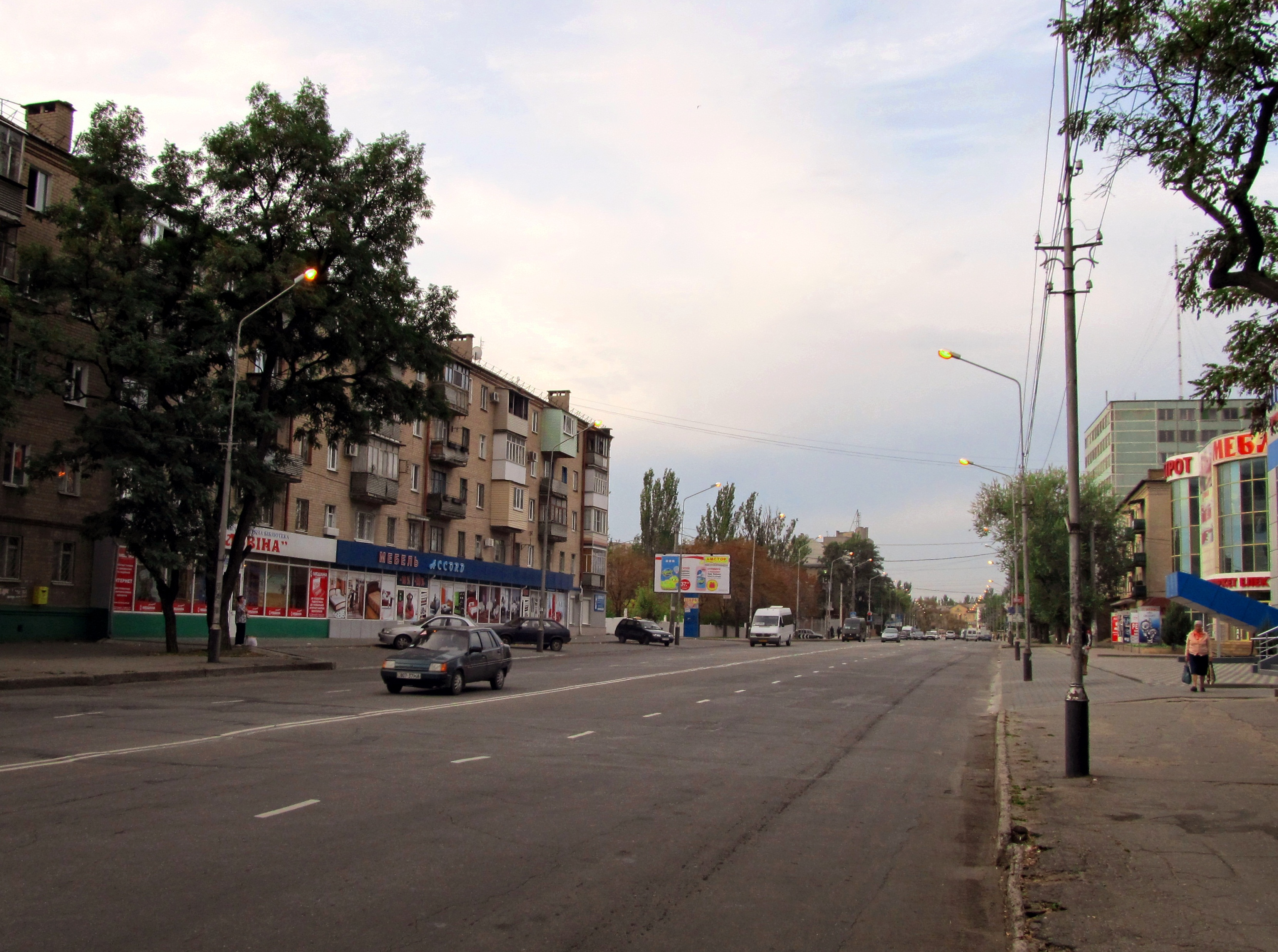 Bogdana Hmelnitskogo Ave. (Melitopol, Zaporizhia Oblast, Ukraine).